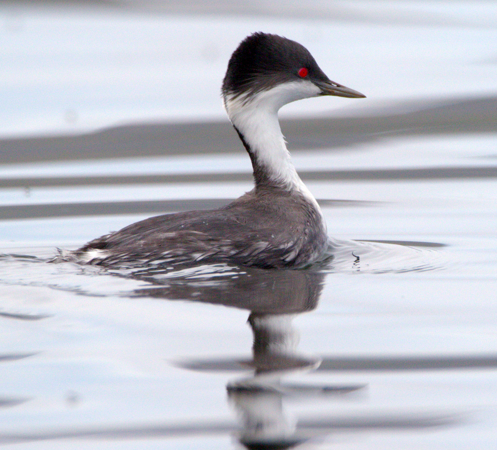 adult Junin Grebe Podiceps taczanowskii, swimming, Junin Lake, Peru.